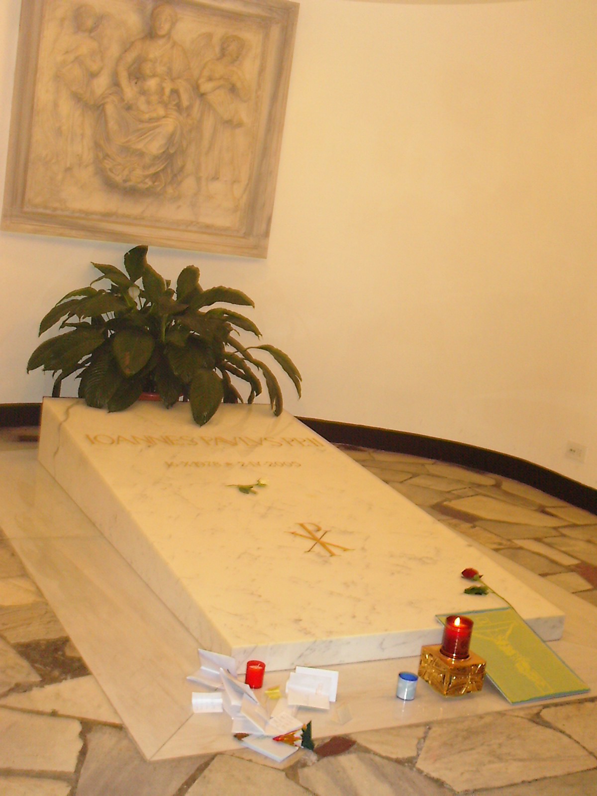 Grave of Pope John Paul II, Vatican.